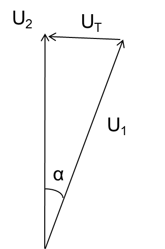 Vector diagram of a phase shifting transformer